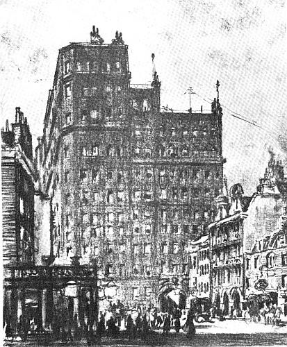 Queen Anne's Mansions in 1905.